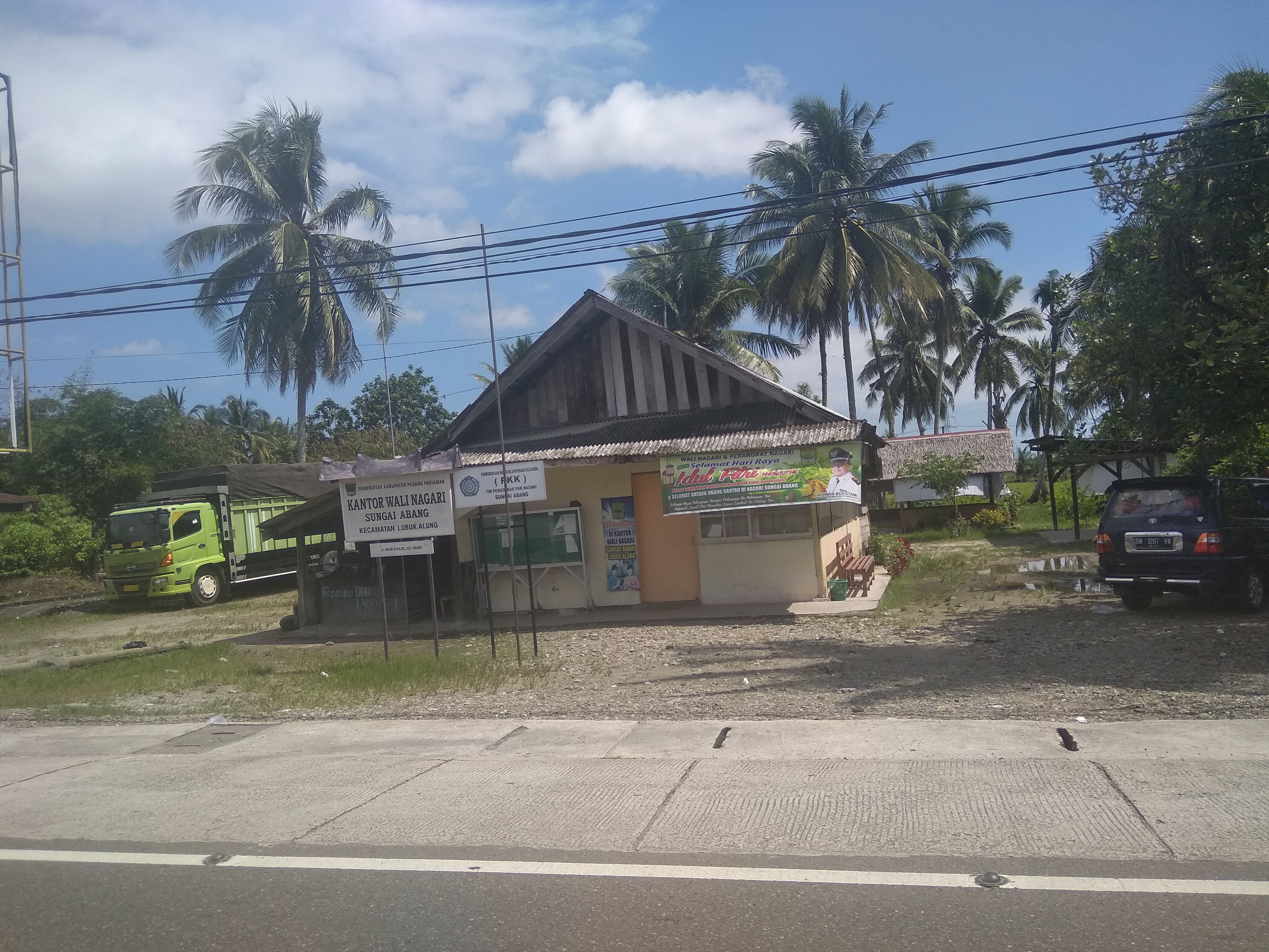 Sungai Abang Village Office on Padang—Bukittinggi street, Sungai Abang district, Lubuk Alung District, Padang Pariaman Regency, West Sumatra, Indonesia.